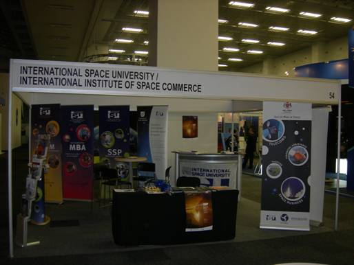 International Institute of Space Commerce stand at International Astronautical Conference